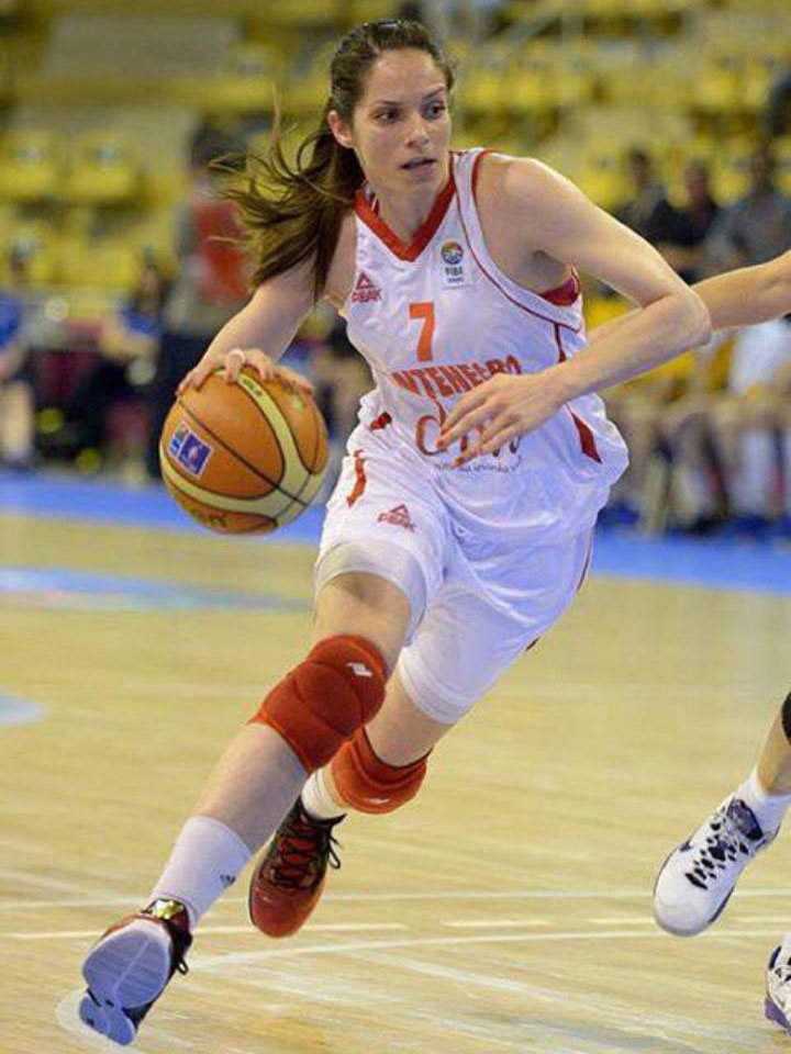 Basketball player